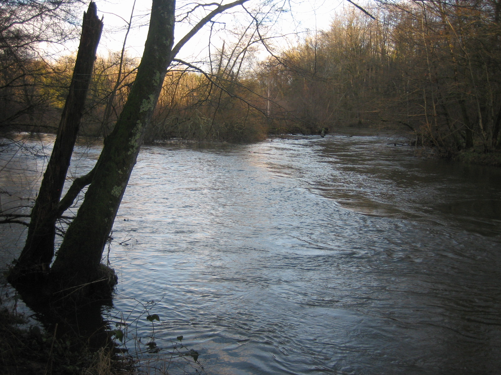 confluent de la Combeauté et de la Semouse